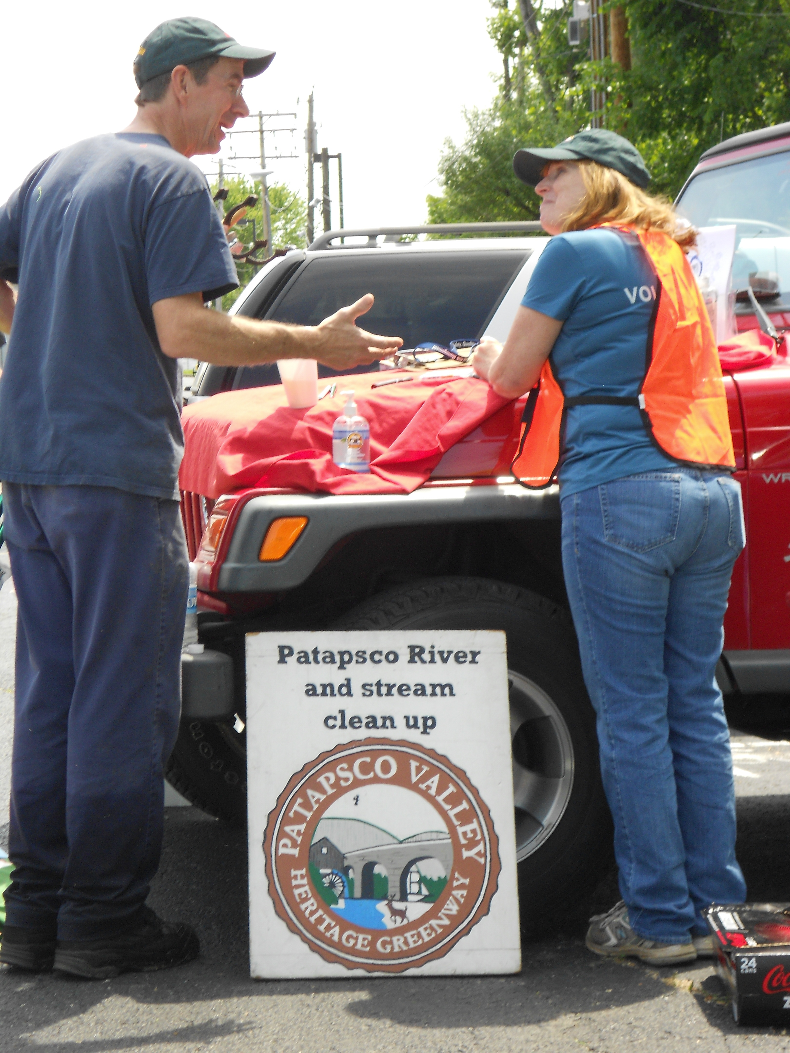 Jeff Klein and Betsy McMillion, volunteers from the Friends of Patapsco Valley & Heritage Greenway, Inc., discuss results a community cleanup of Herbert Run (a tributary of the Patapsco River) in Arbutus, Maryland.